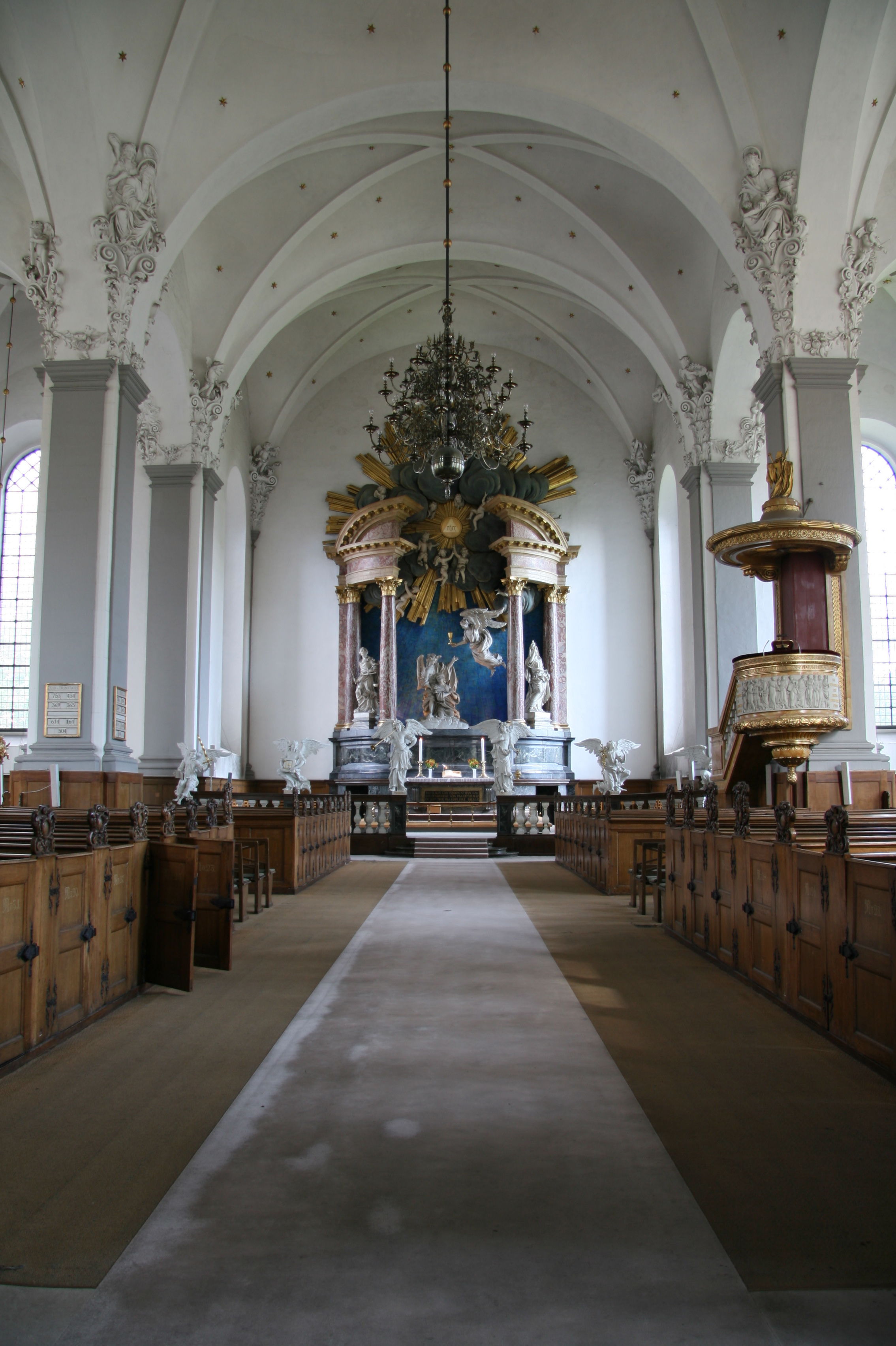 Vor Frelser Kirke (Church of Our Saviour), Copenhagen, Denmark. Interior, portrait format.